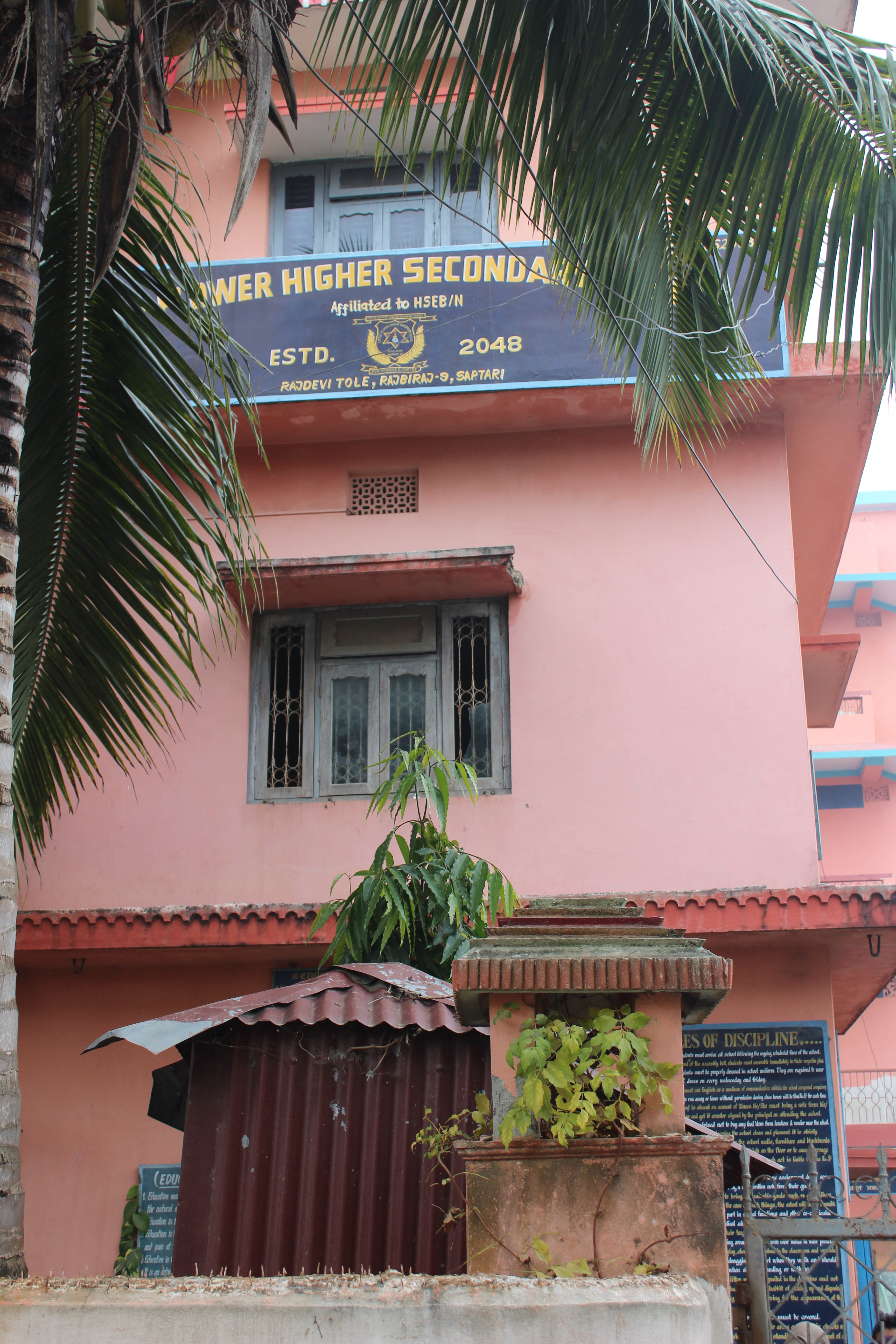 Wikipedia Education program - Little Flower Secondary School